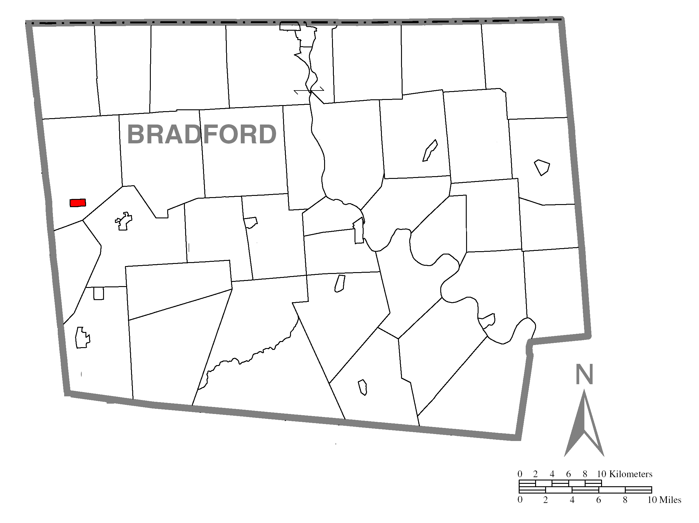 A map of Bradford County showing Sylvania, Pennsylvania (alternate) highlighted on the map.